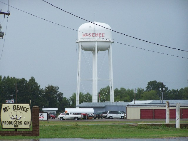 Private Tower----Mc Gehee Producers Gin Inc. Located at 2106 Highway 65 N, Desha County, Mc Gehee, Arkansas